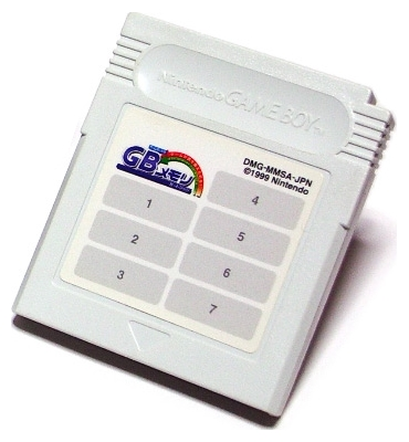 Game Boy Memory Cartridge Nintendo Power